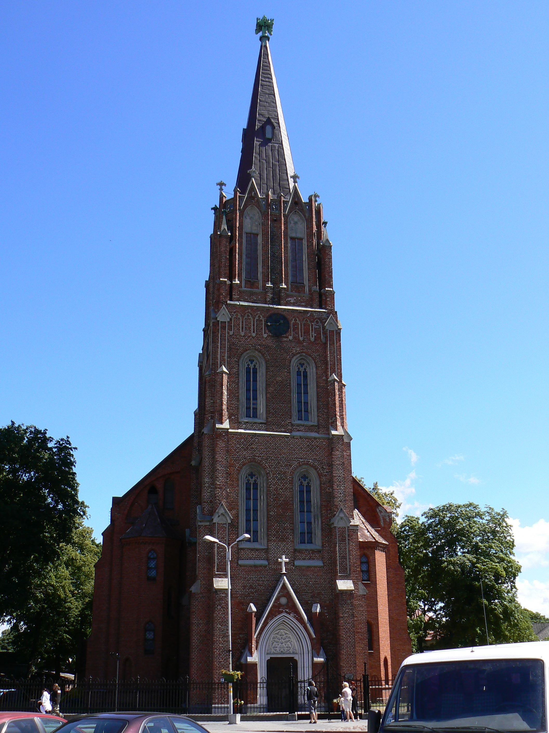 Lutheran Church of St. Ana in Liepaja. It's Liepaja's oldest church, built in XI century. At first it was wooden, lately few times reconstructed.